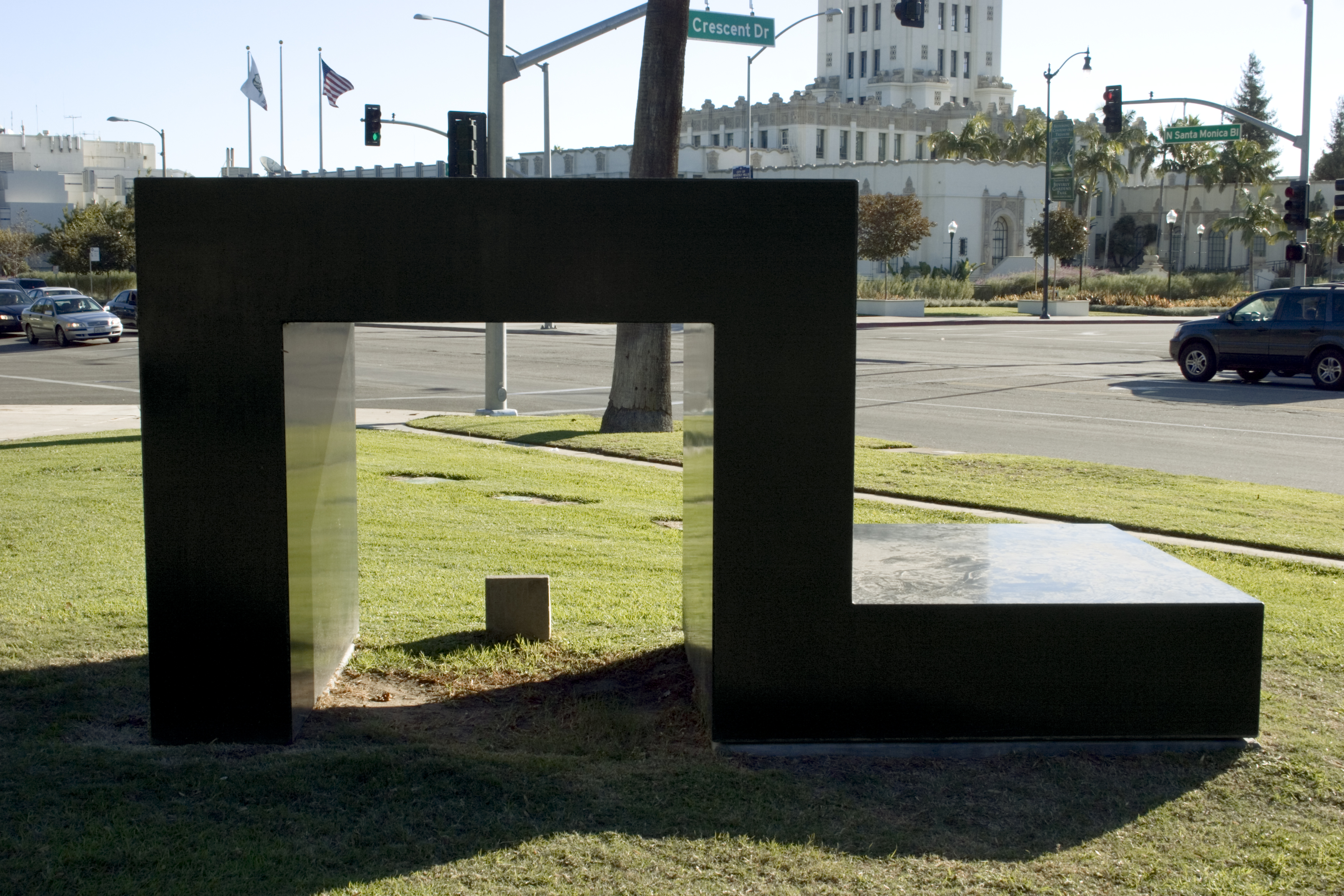 Artist: Tony Smith (United States, b. 1912, d. 1980) Playground (3/3) Steel; Painted Black, 1962 Location: Beverly Gardens Park, Beverly Hills, CA